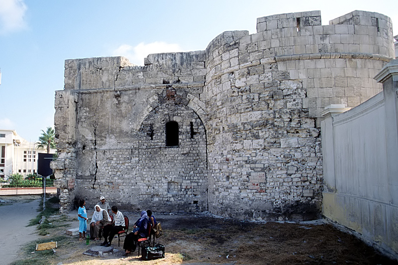 Eastern tower of the Greek town wall, Alexandria, Egypt